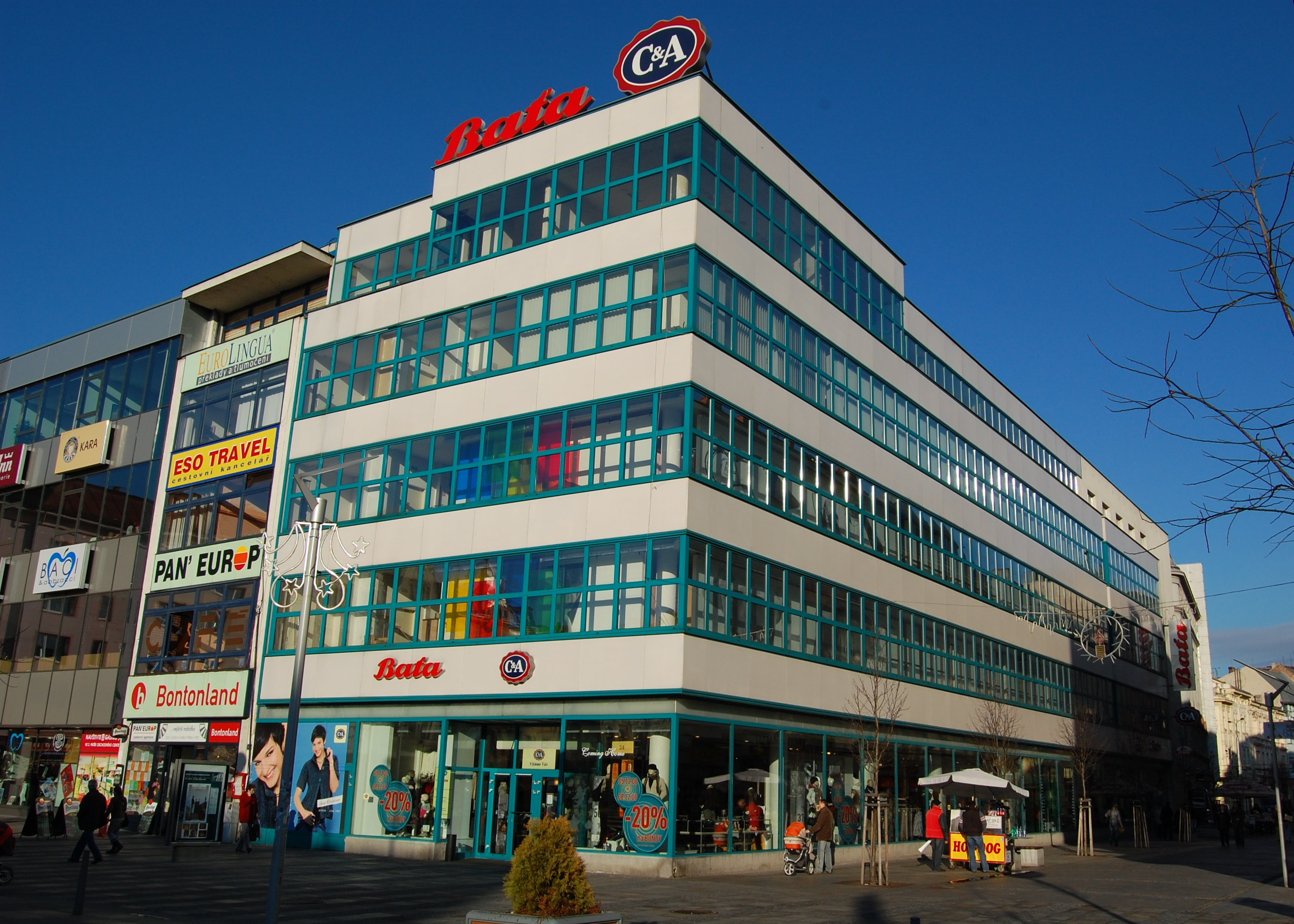 Baťa store at the Masaryk square in Ostrava, Czech republic.